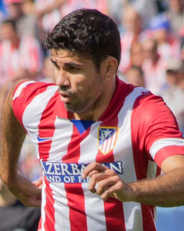 Brasilian football player Diego Costa during a game with Atlético de Madrid.